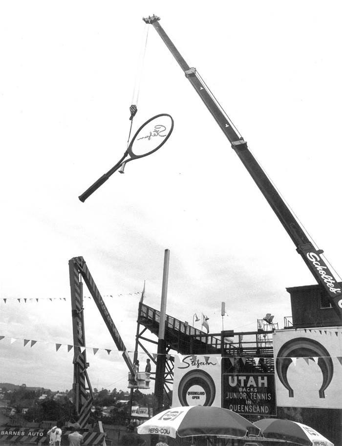 The Stefan Racquet - Frew Park, Milton, circa 1999. When the Milton Tennis Centre was closed in 1999, Stefan rescued the racquet and returned it in 2014 when the site re-opened as Frew Park.